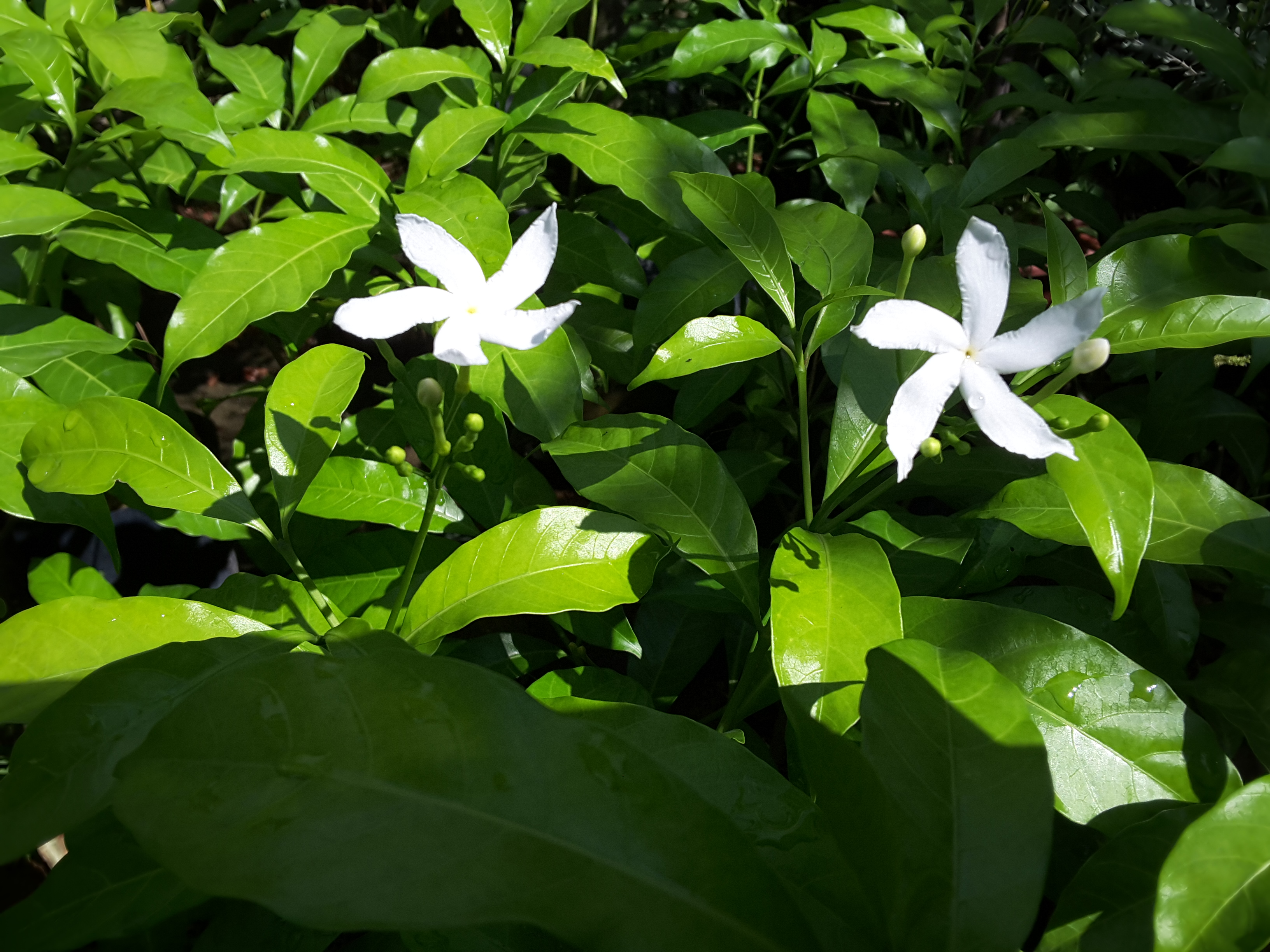 Tabernaemontana divaricata